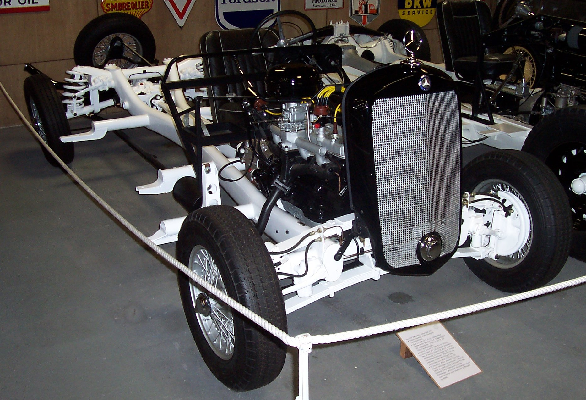 Late 1930's Mercedes-Benz 230 W153 chassis. Location: Jysk Automobilmuseum, Gjern, Denmark